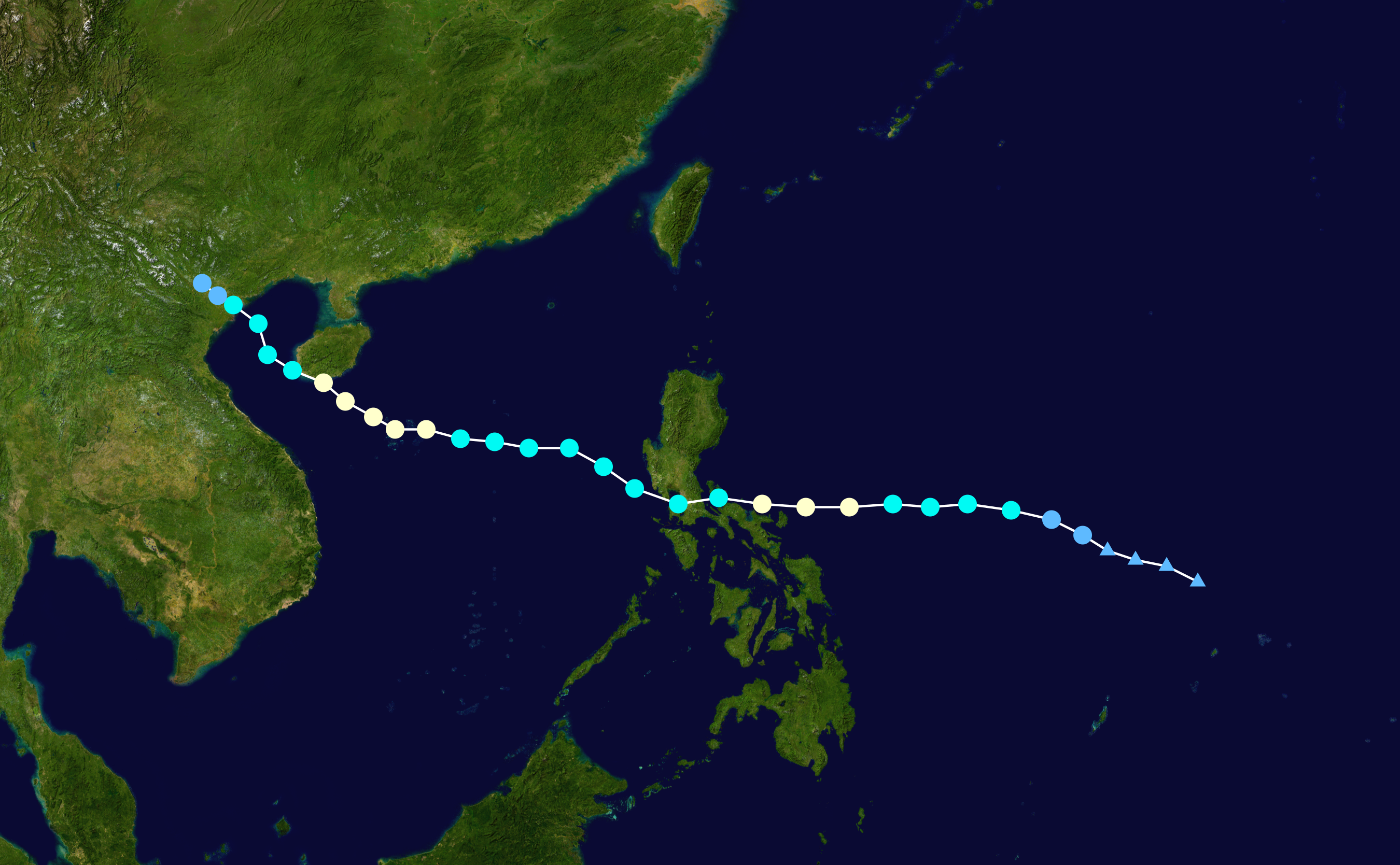 Track map of Typhoon Conson of the 2010 Pacific typhoon season. The points show the location of the storm at 6-hour intervals. The colour represents the storm's maximum sustained wind speeds as classified in the Saffir–Simpson scale (see below), and the shape of the data points represent the nature of the storm, according to the legend below. Saffir–Simpson scale Tropical depression≤38 mph≤62 km/h Category 3111–129 mph178–208 km/h Tropical storm39–73 mph63–118 km/h Category 4130–156 mph209–251 km/h Category 174–95 mph119–153 km/h Category 5≥157 mph≥252 km/h Category 296–110 mph154–177 km/h Unknown Storm type Tropical cyclone Subtropical cyclone Extratropical cyclone / Remnant low / Tropical disturbance / Monsoon depression